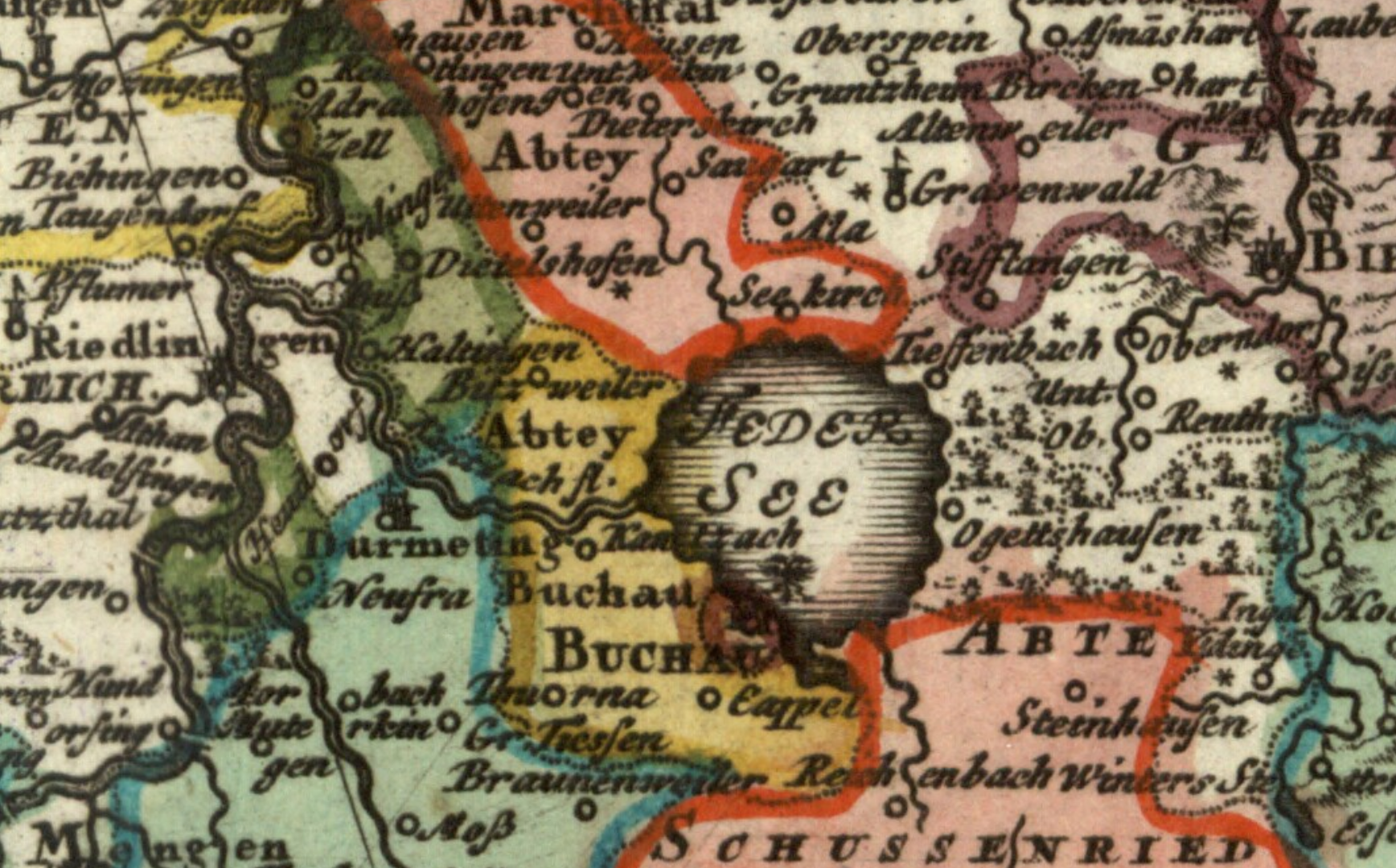 Detail of a 1743 map showing the Imperial Abbey of Buchau (in yellow) and the town of Buchau on the shore of the Federsee. The double-headed eagle next to the town symbolises the status of Buchau as a self-ruling free imperial city. Map titled Circvli Sveviae Mappa by Johann Matthias Hase published in 1743.